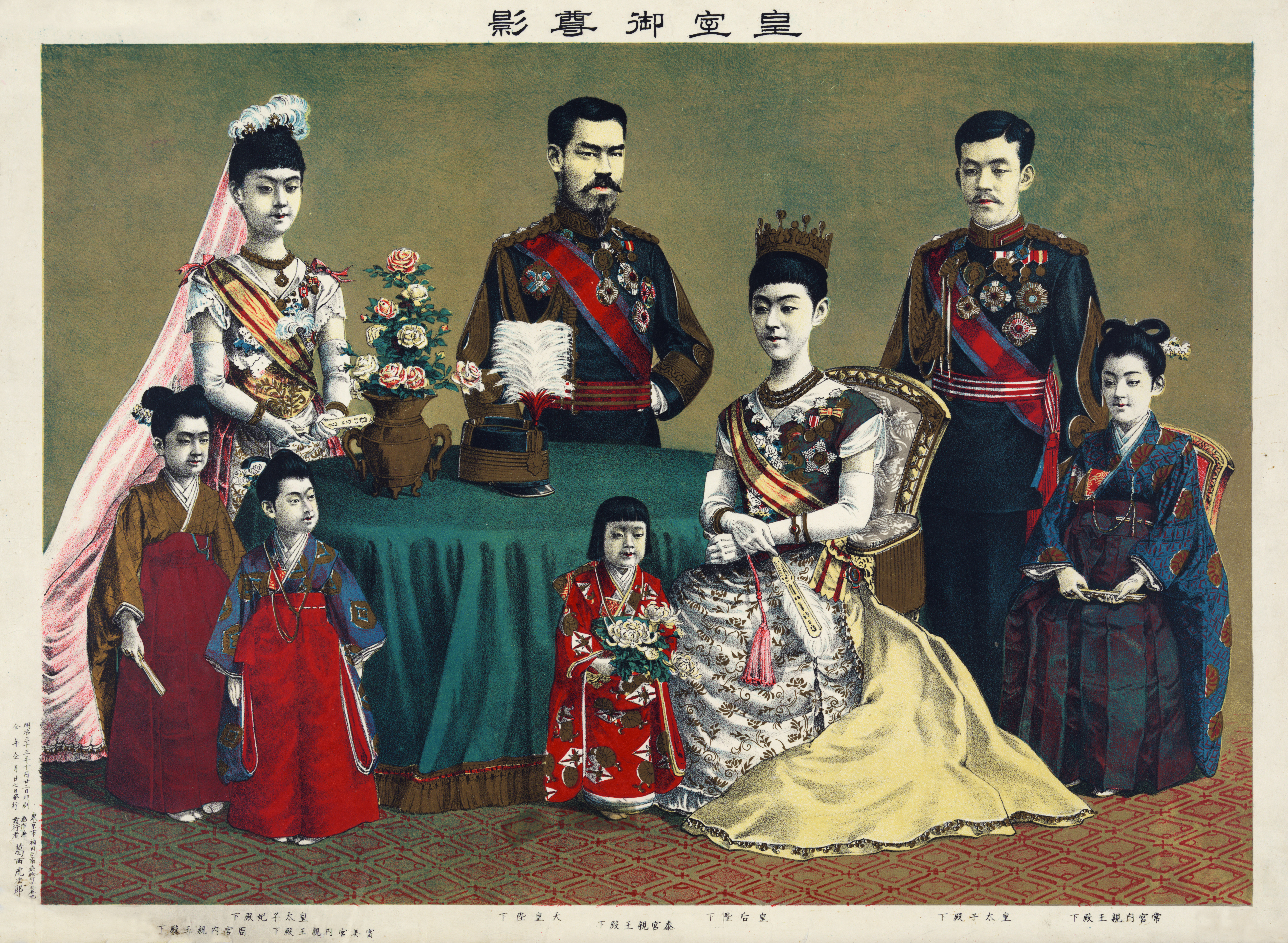 The Meiji Emperor, standing, with the imperial family of Japan.